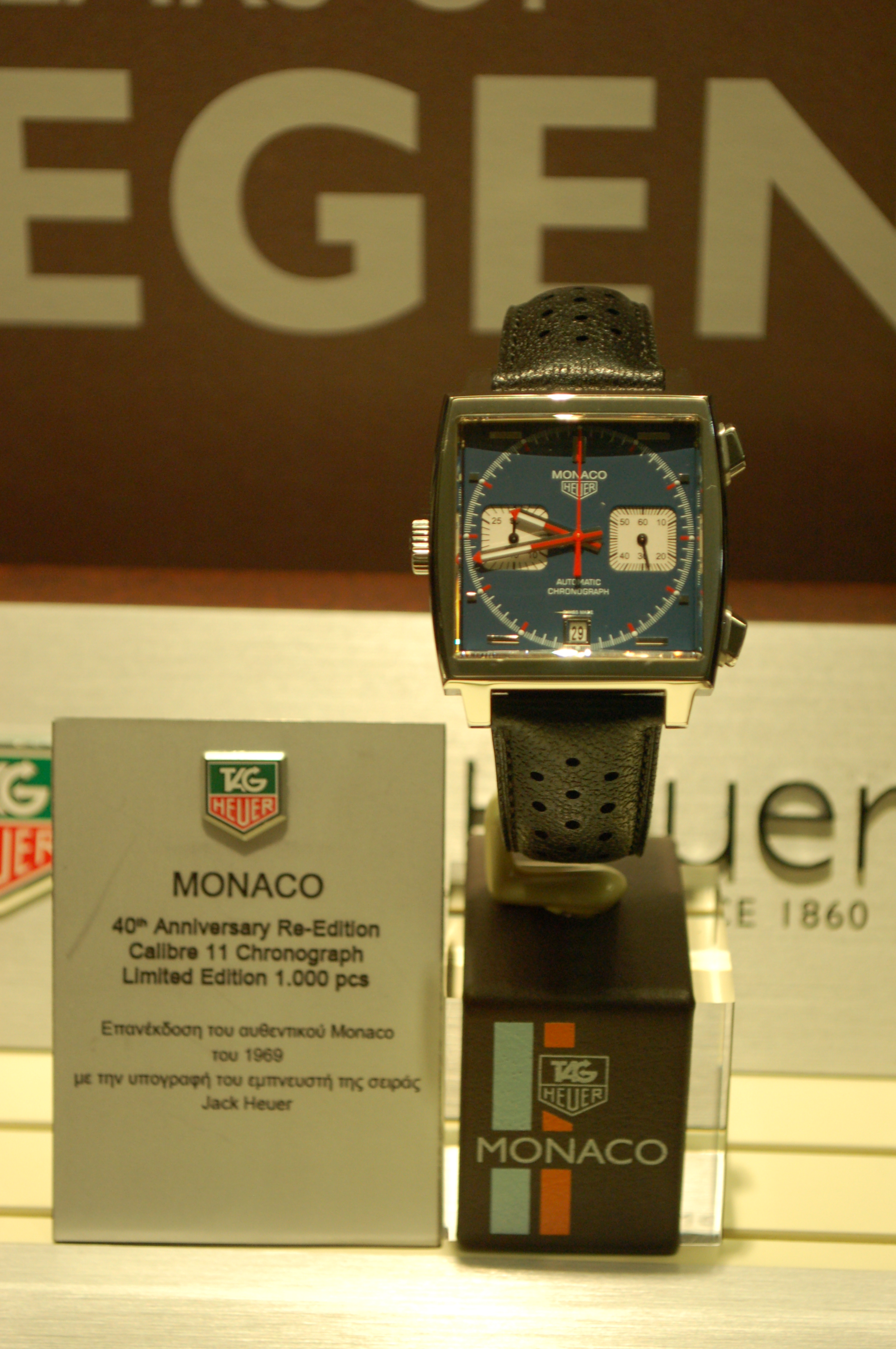 TAG Heuer Monaco 40th Anniversary re-edition with Calibre 11, at Athina Fair 2009.